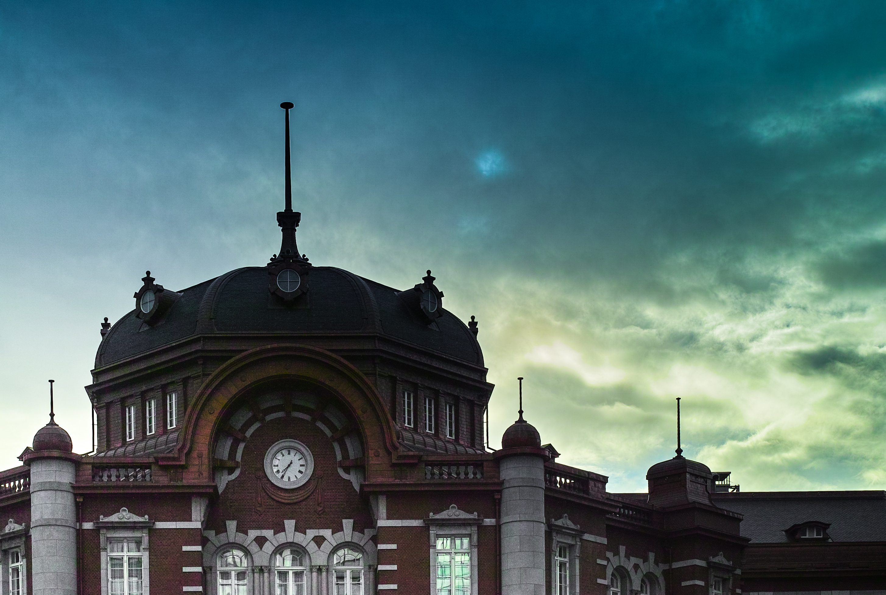 Restored Tokyo Station Marunouchi station building dome